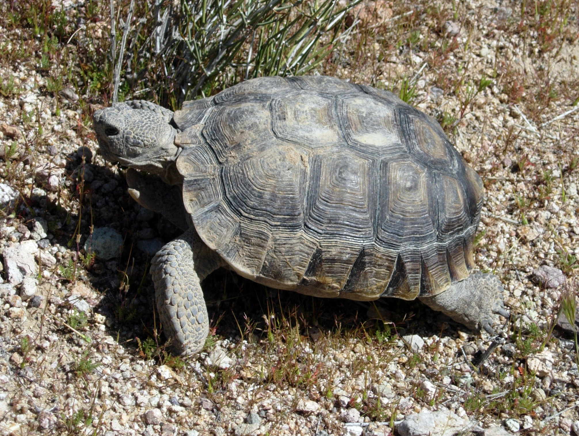 Desert Tortoise (Gopherus agassizii) in Rainbow Basin near Barstow, California.